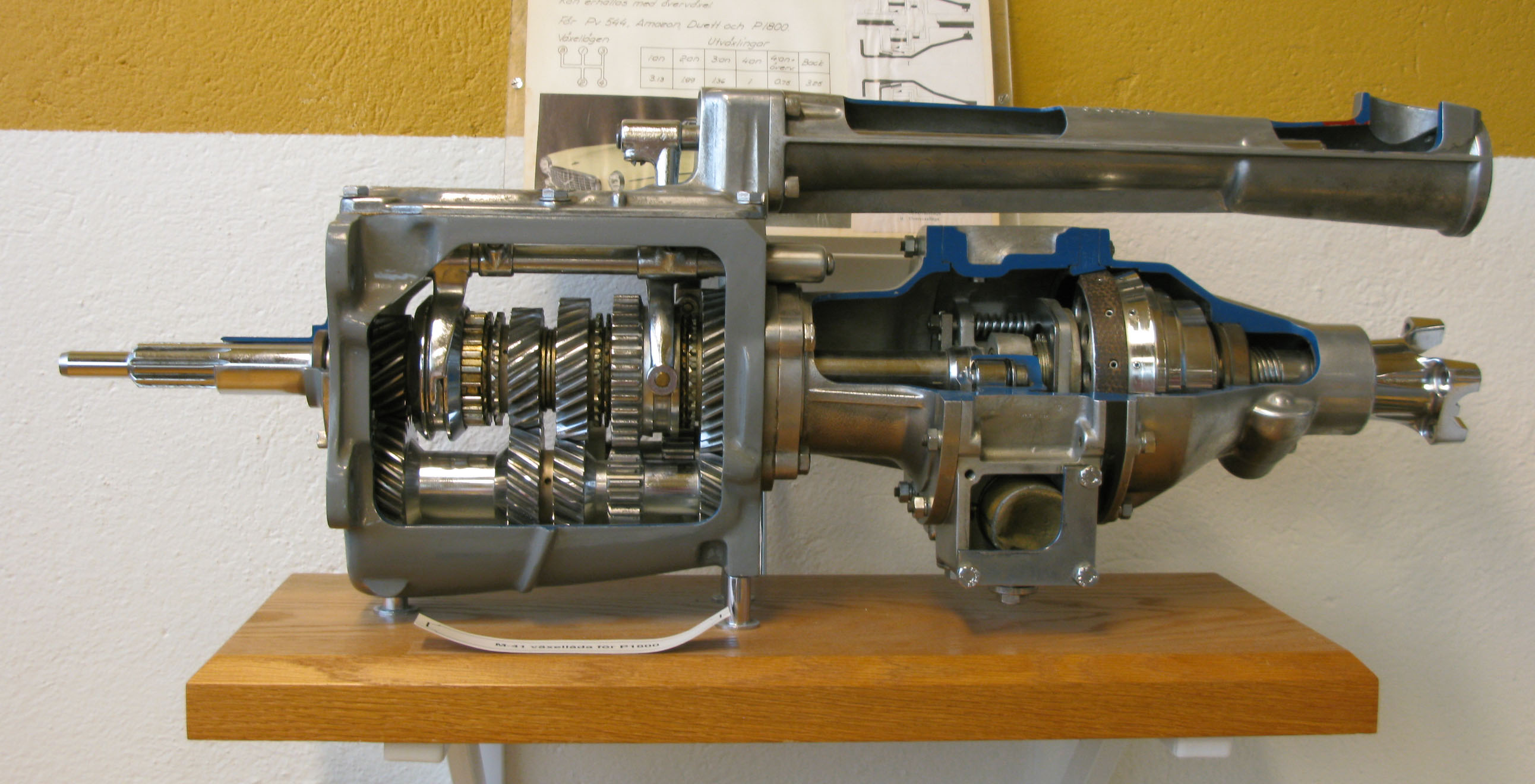 Volvo M41 4 speed gear box with Laycock de Normanville overdrive. Location: Bil & Teknikhistoriska Samlingarna i Köping